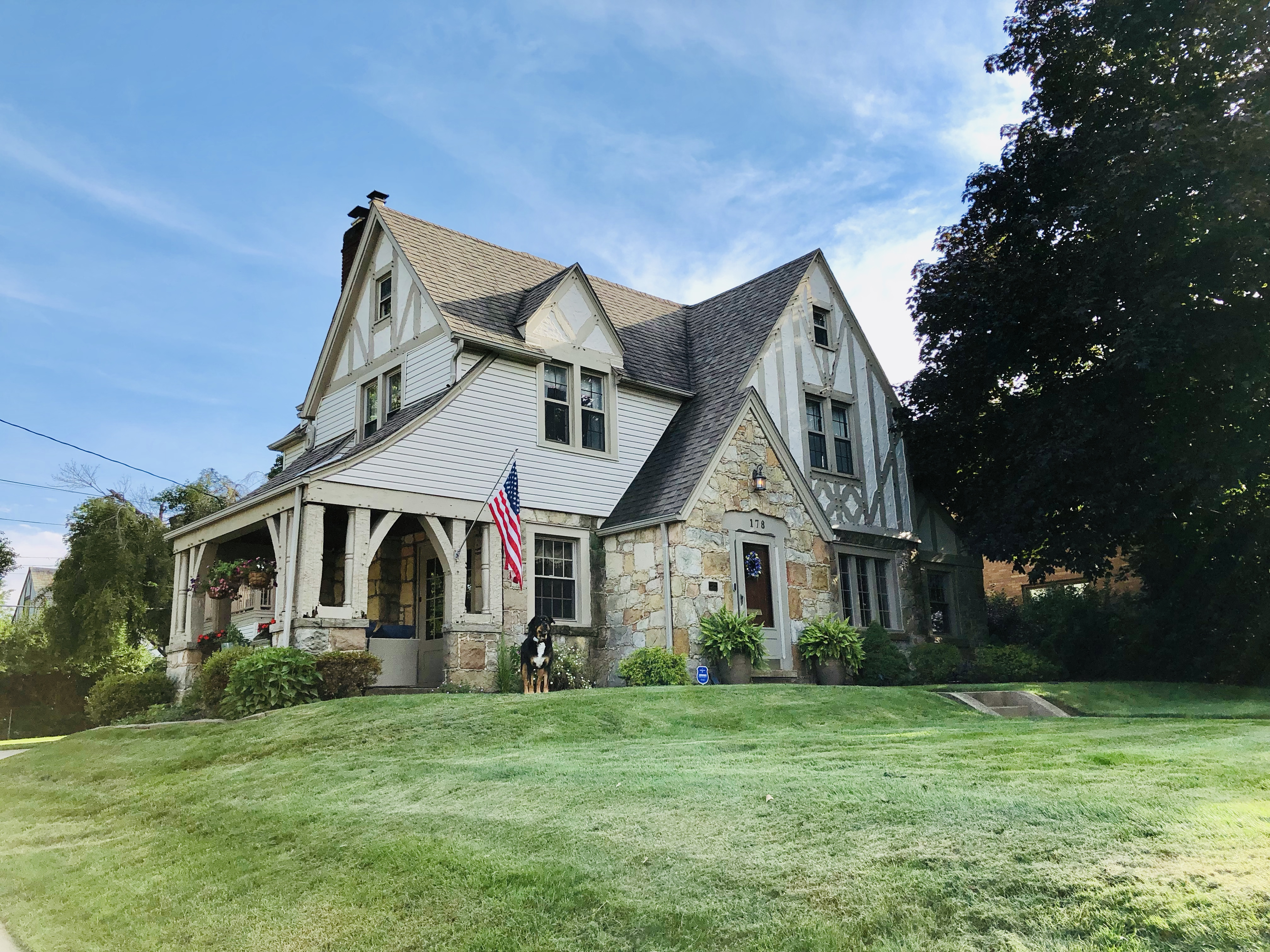 Tudor Revival built in 1929 located in Historic Ridgewood Neighborhood in Canton, Ohio.